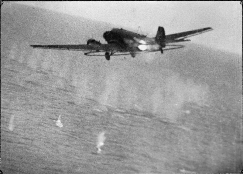 Royal Air Force- Air Defence of Great Britain (adgb), 1943-1944. Still from camera-gun footage shot from a Hawker Typhoon Mark IB flown by Flying Officer W V Mollett of No. 266 Squadron RAF, showing the shooting down of a Junkers Ju 52/3mg6e minesweeping aircraft of the Minensuchgruppe off Lorient, France. Cannon shells from Mollett's aircraft are striking the sea and the fuselage of the Ju 52, which crashed into the sea shortly afterwards. Mollet shared the destruction of the Ju 52 with Flying Officer N J Lucas, also of 266 Squadron.